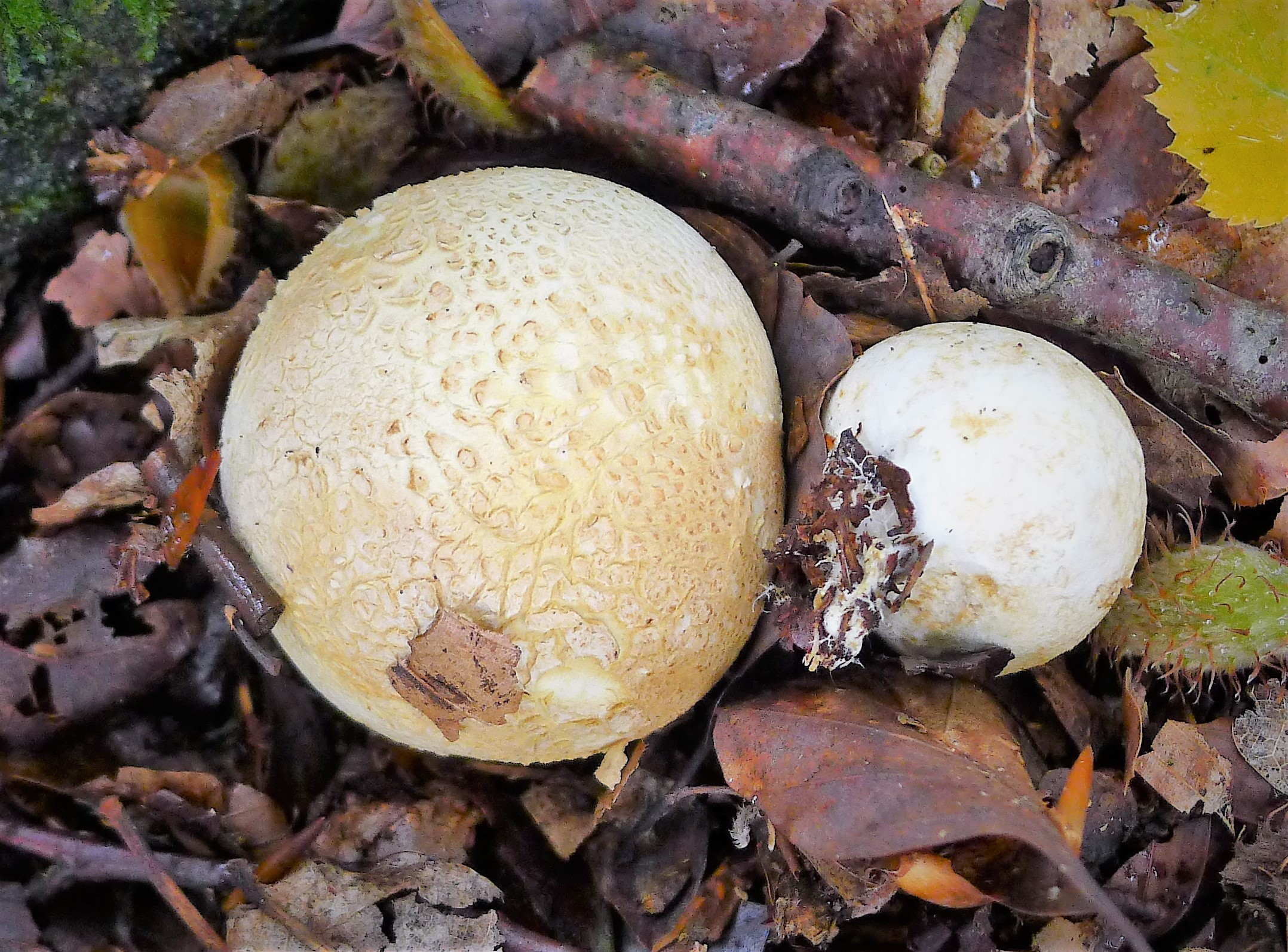 SU274068 Lyndhurst, New Forest, Hants